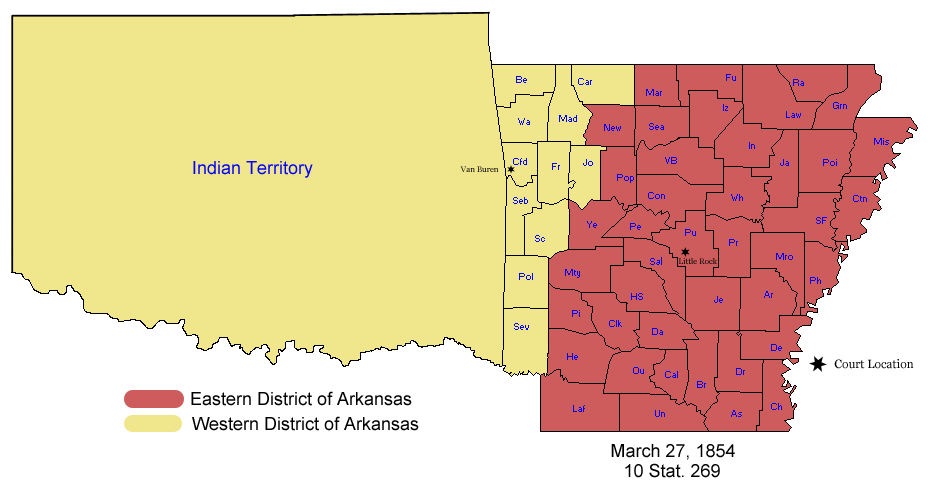 Arkansas districts - 1854